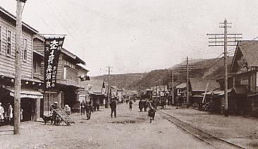 Honcho in Maoka (Kholmsk)